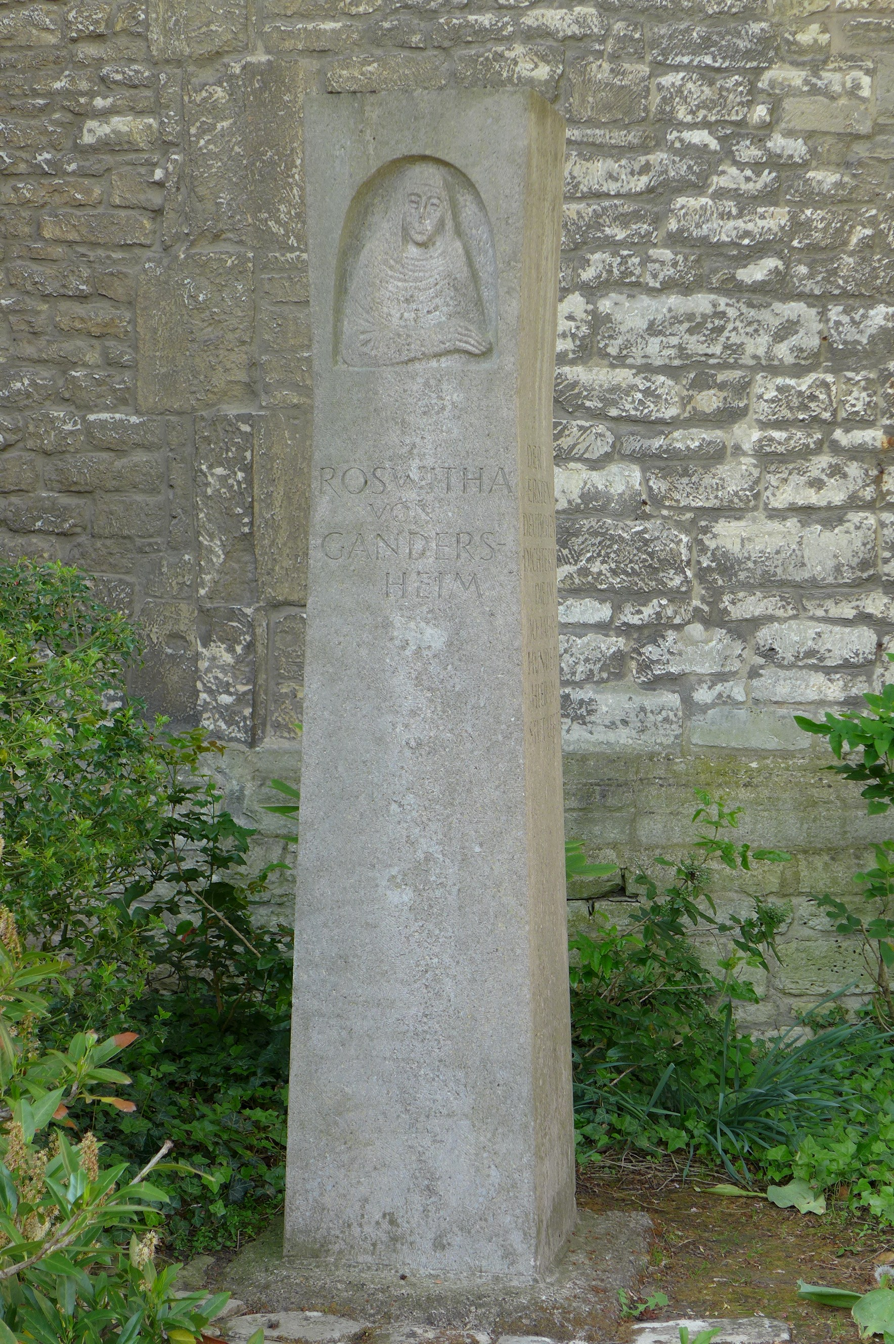 memorial created in 1962